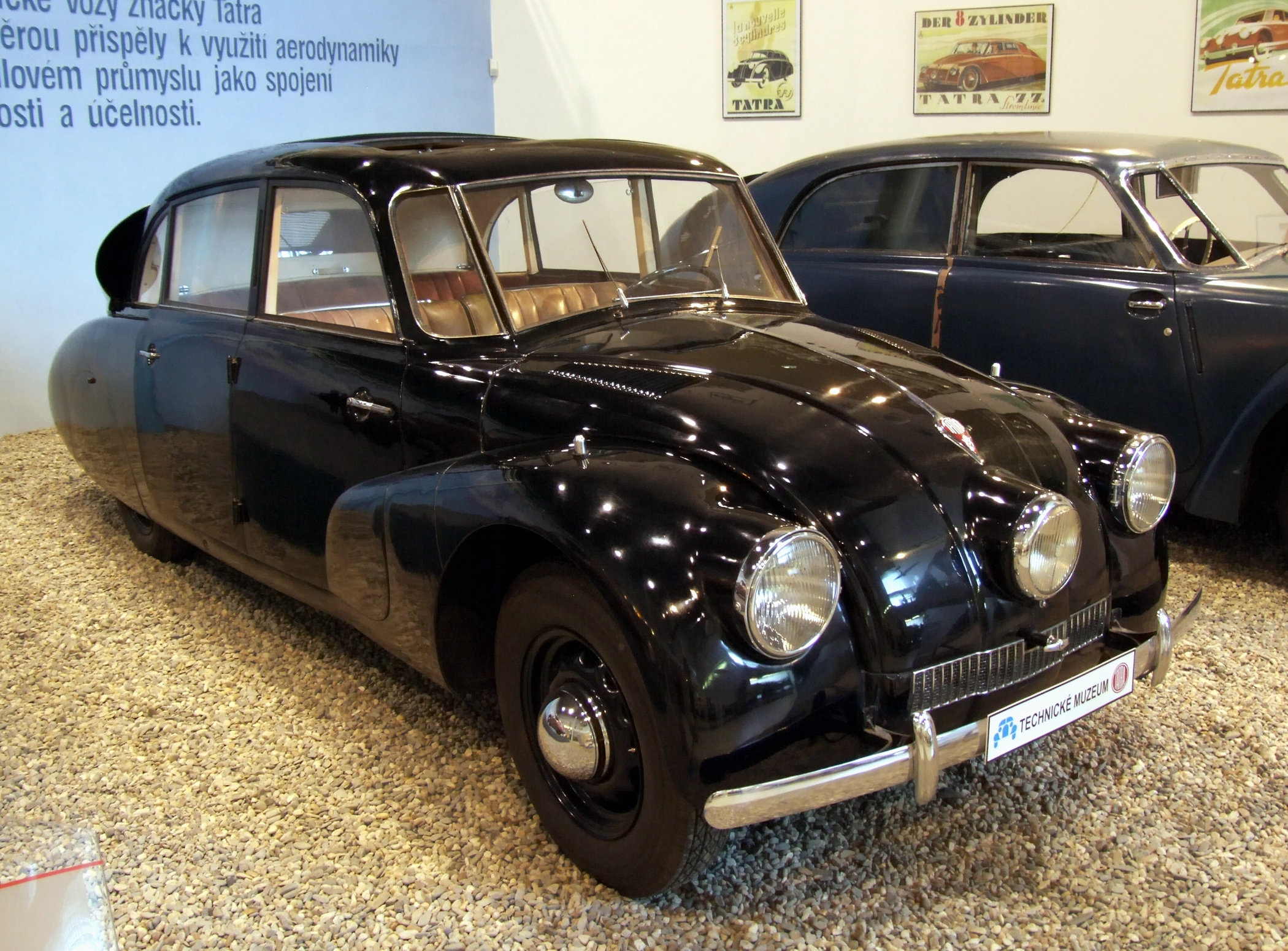 Tatra 87 in Technical Museum Tatra